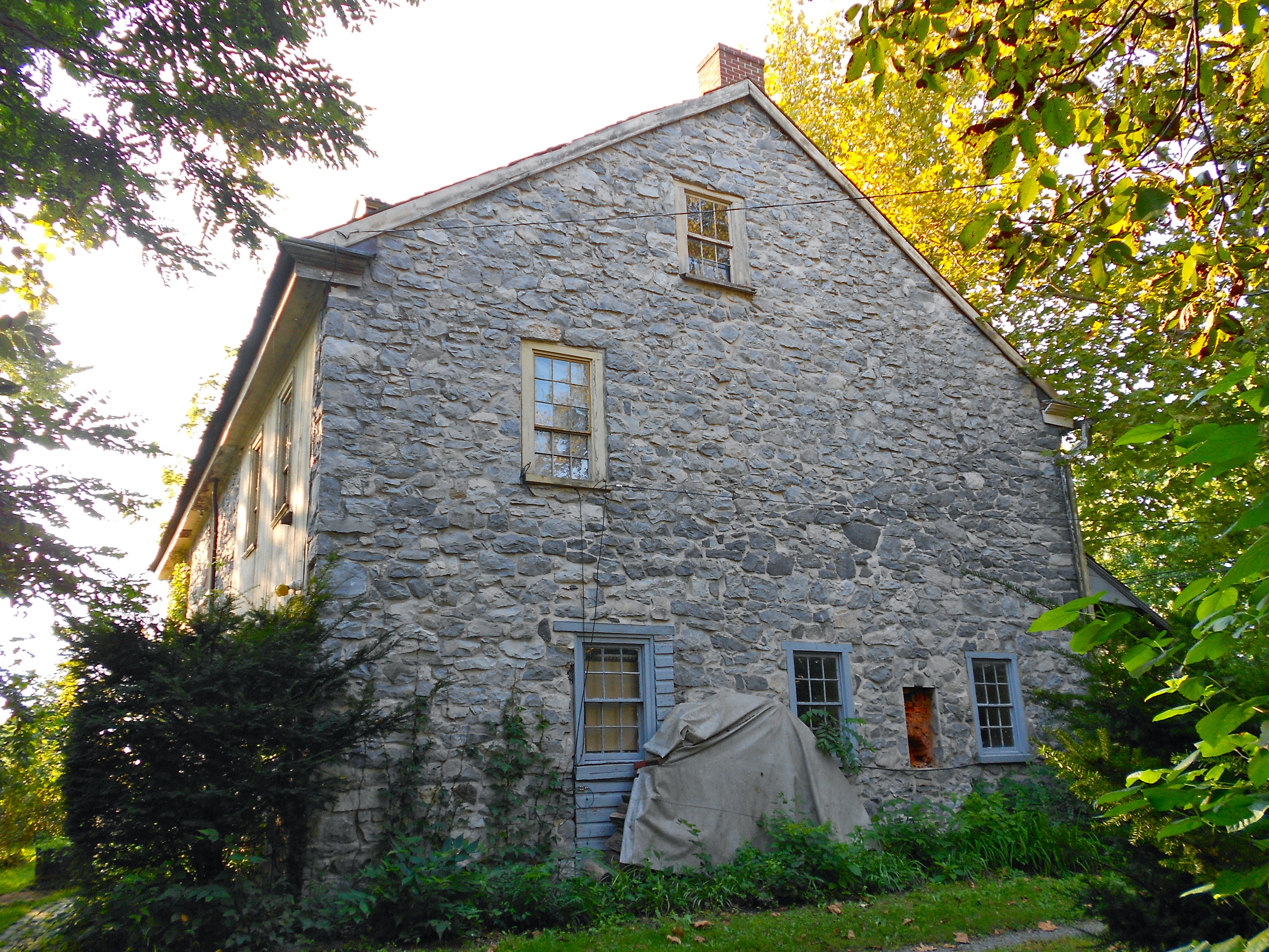 Witmer's Tavern, east side less hidden by trees than the front. Just east of the newer "expressway" US 30 on Old Philadelphia Pike, Lancaster County, PA